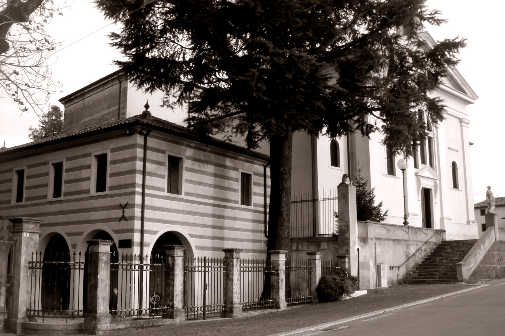 Church of Refrontolo (Treviso, Italy)